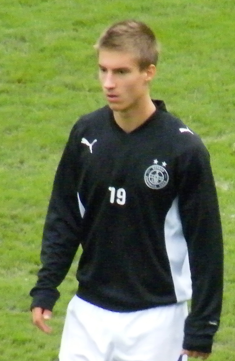 Balázs Balogh Hungarian association football player.